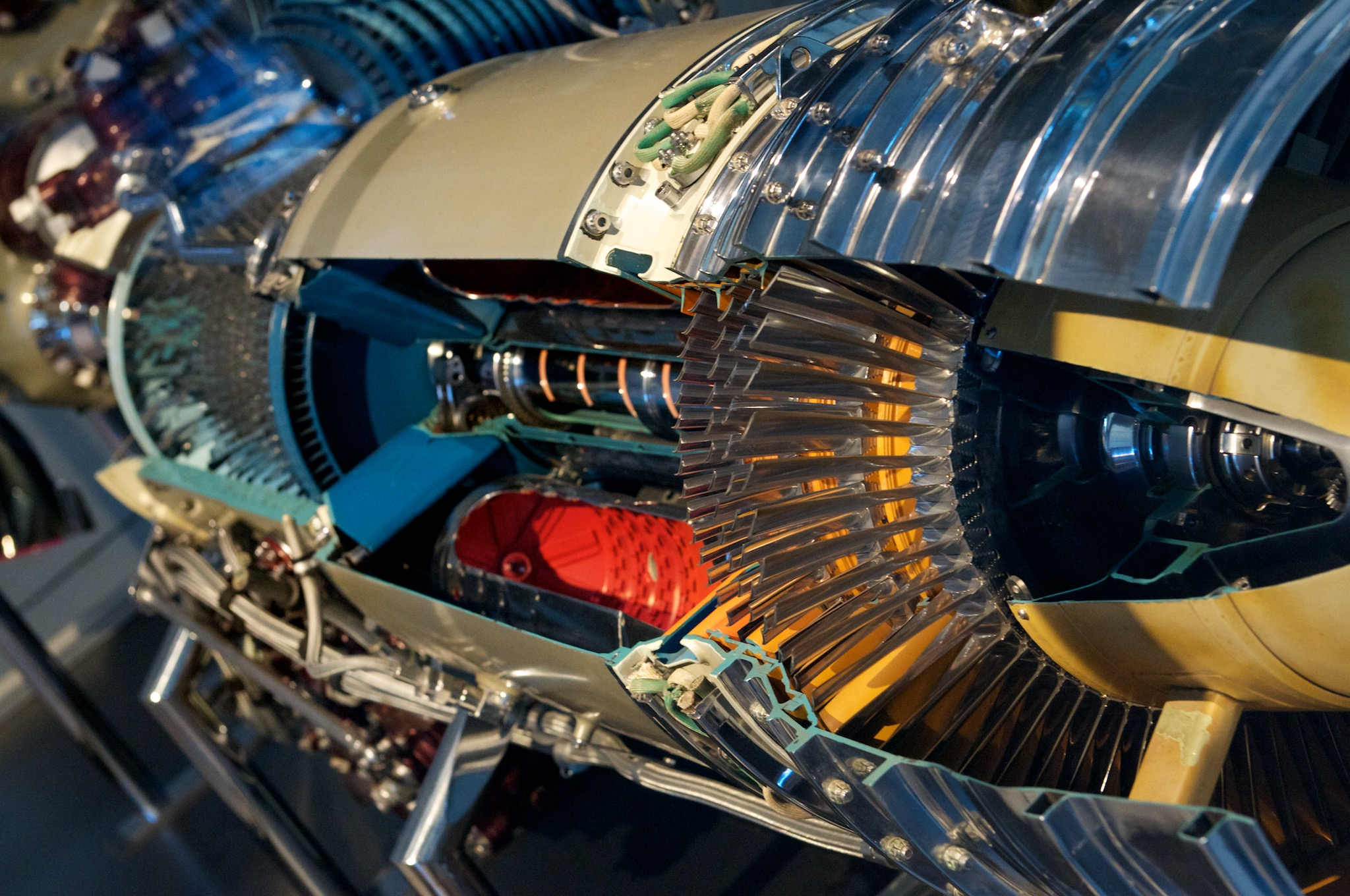 The Allison T56 was first tested in 1954. At the Smithsonian National Air and Space Museum Udvar-Hazy Center